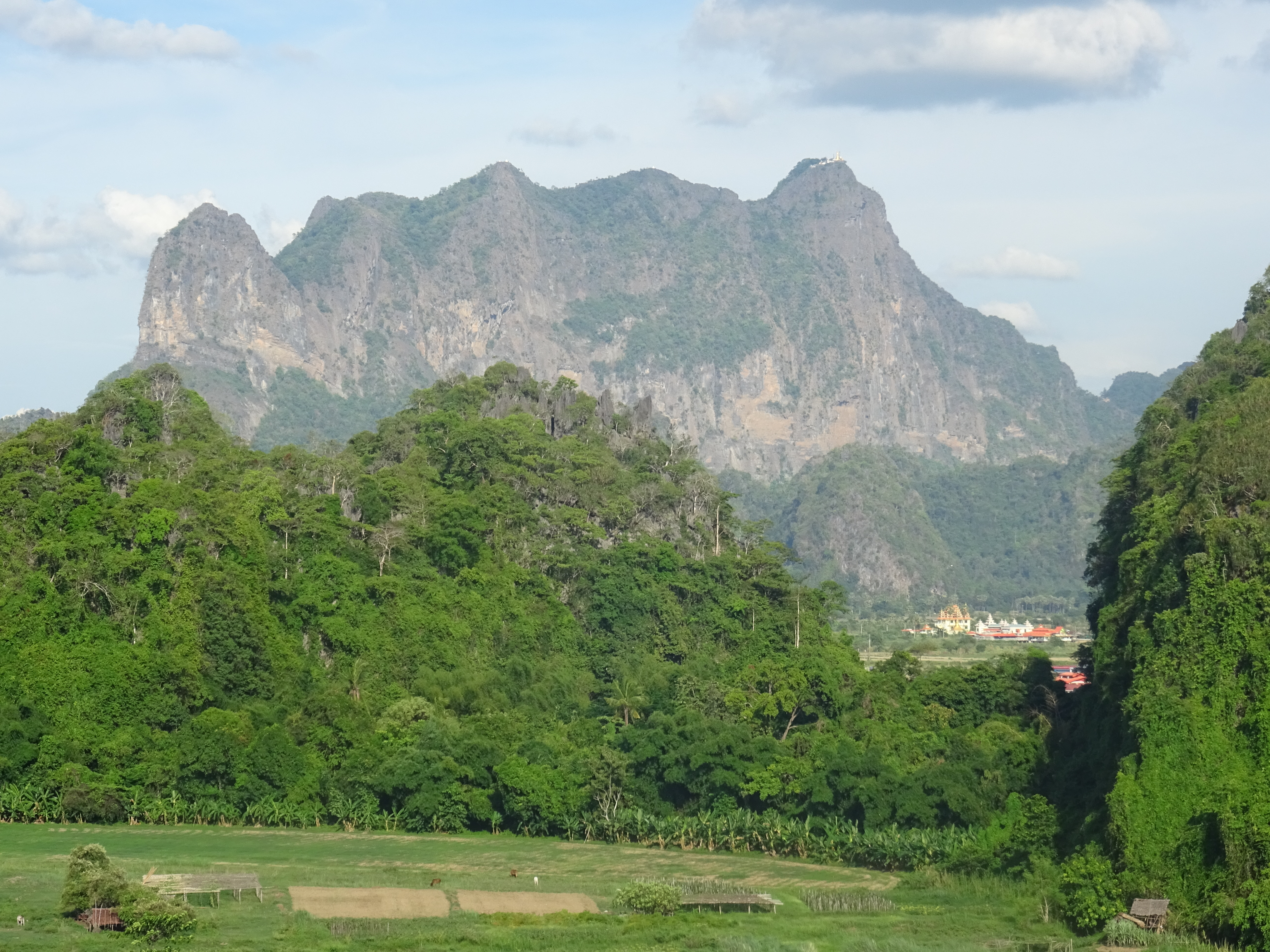 Mount Zwegabin seen from the viewpoint near the Bat Cave in Hpa-An.